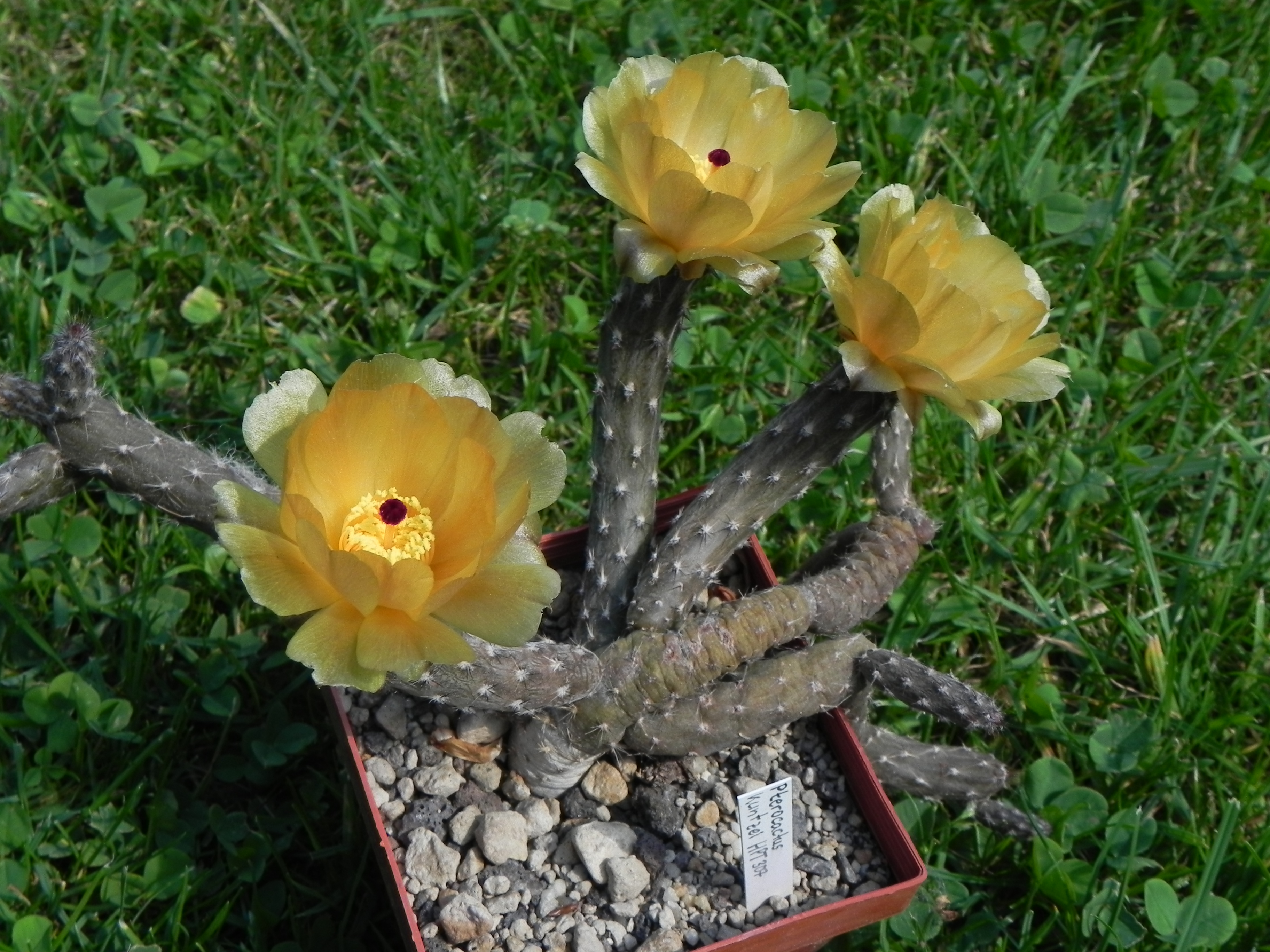 Photo of the cactus Pterocactus tuberosus (Pfeiff.) Britton & Rose, taken from a plant in cultur, with flowers. Synonym name is Pterocactus kuntzei K.Schum (1897).